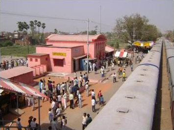 Warisaliganj station is one of busiest station of KIUL-GAYA section of DANAPUR division under East Central Railway.